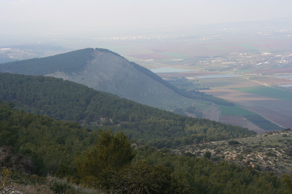 The Gilboa Ridge